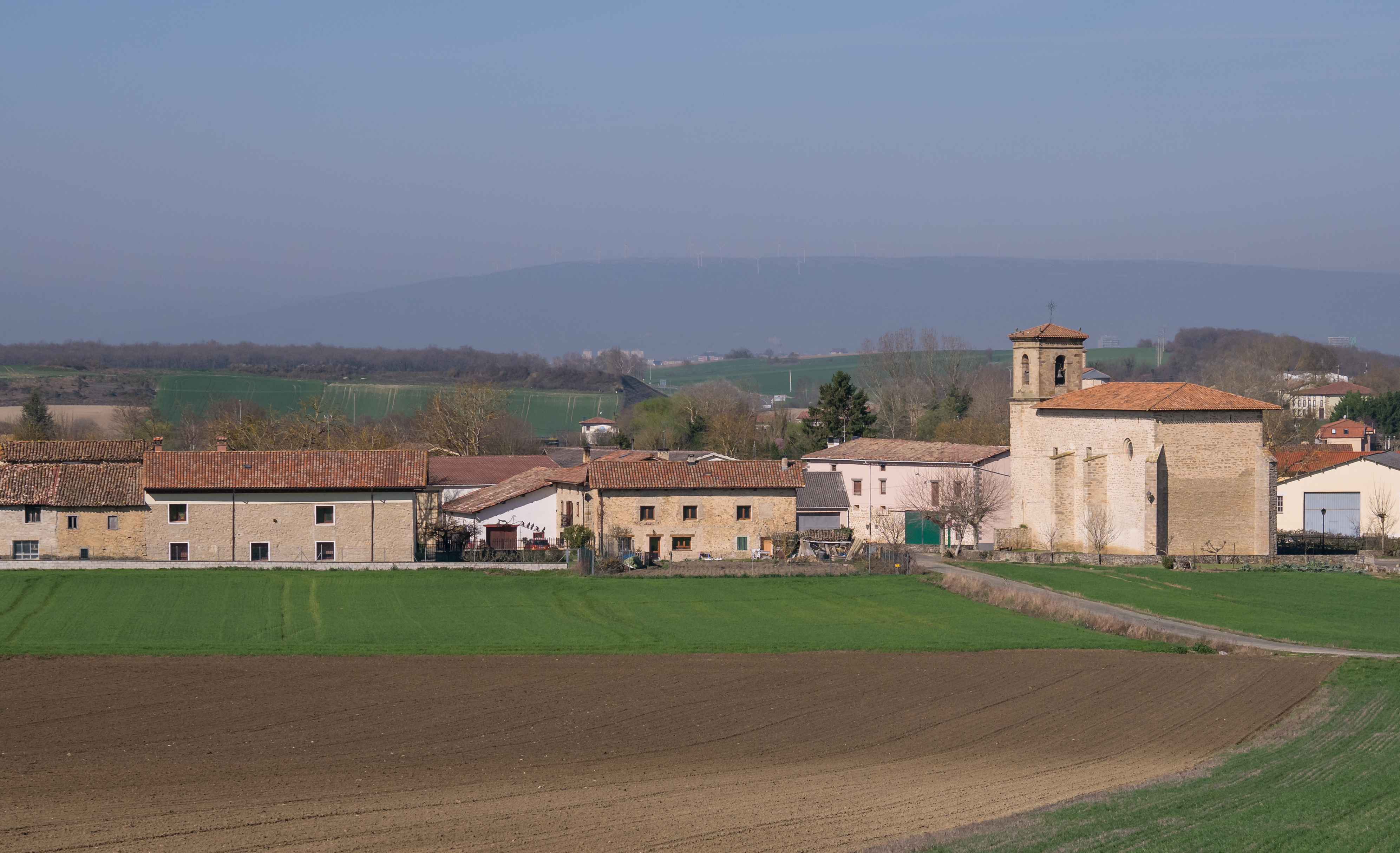 Villafranca. Álava, Basque Country, Spain